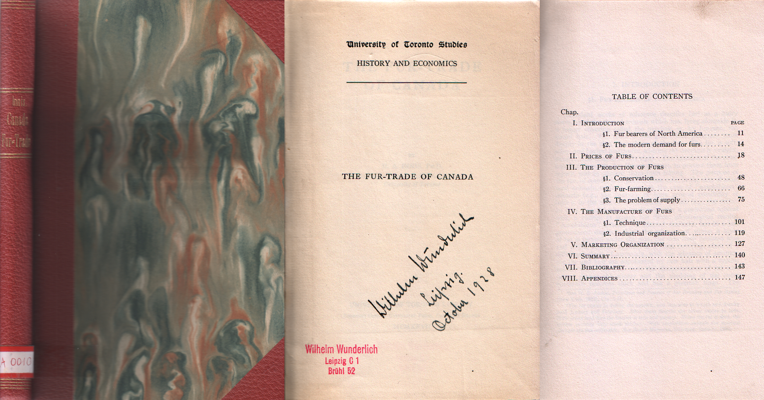 H. A. Innis, Ph. D. (Assistent Professor of Political Economy, University of Toronto): The Fur-Trade of Canada. Book cover, title page and contents. University of Toronto Library; Toronto: Oxford University Press, Canadian Branch. MCMXXVII. University of Toronto Studies, History and Economics. Hardcover, 172 pages, 15,5 x 23,5 cm Owner's note: Wilhelm Wunderlich, Leipzig, October 1928. Wilhelm Wunderlich Leipzig C 1, Brühl 52 [fur wholesale dealer]